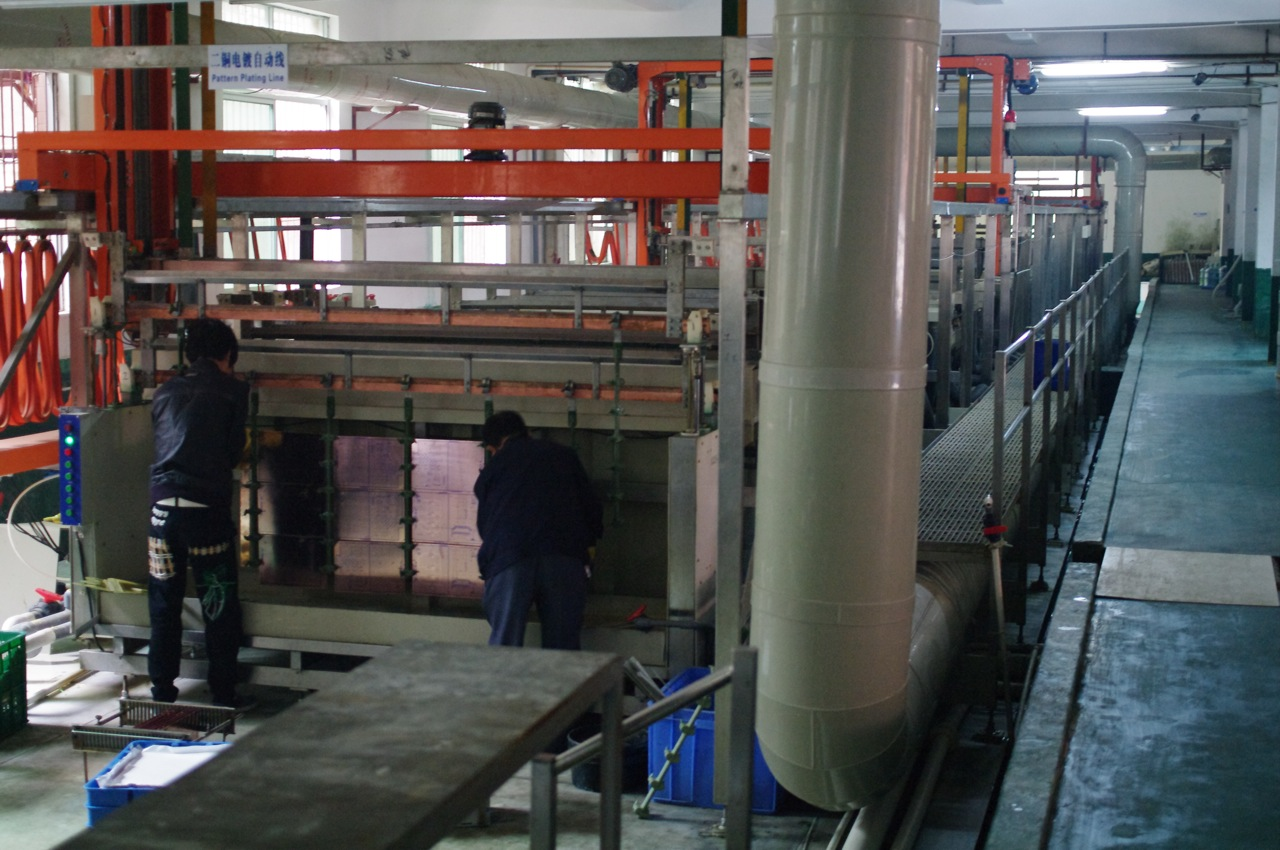 Copper electroplating on printed circuit boards (a PCB factory in China - Innoquick Electronics Limited